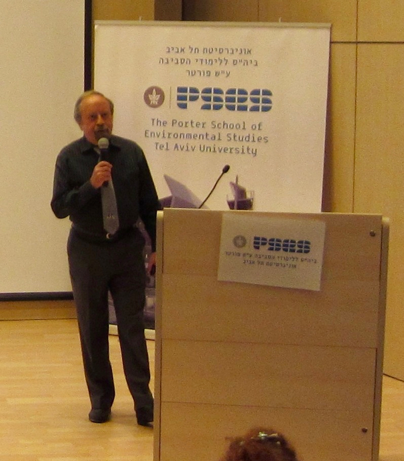 Alex Hershaft - Animal Rights Activist. Tel Aviv University. May 2015